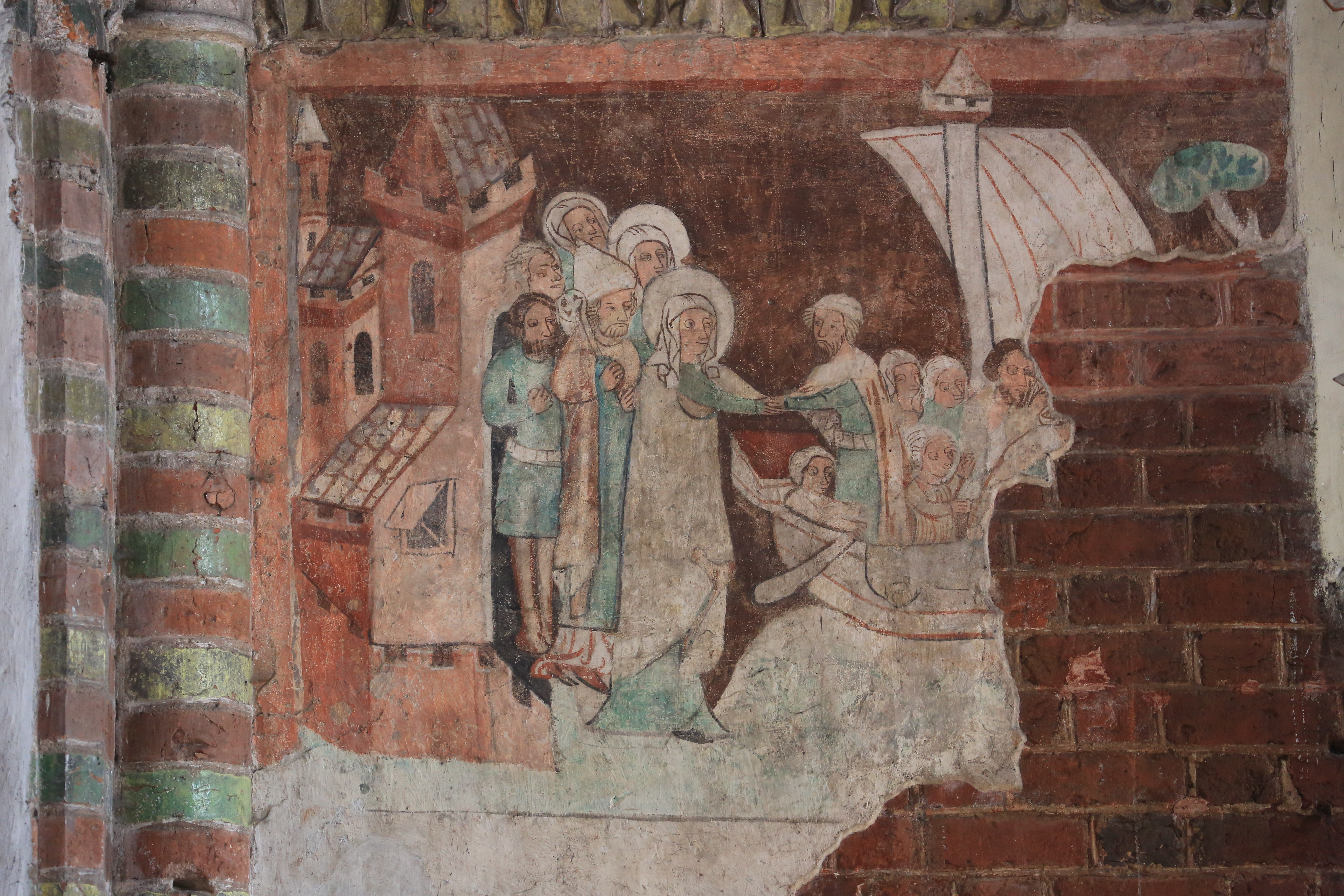 Fresco in Church of St James in Torun